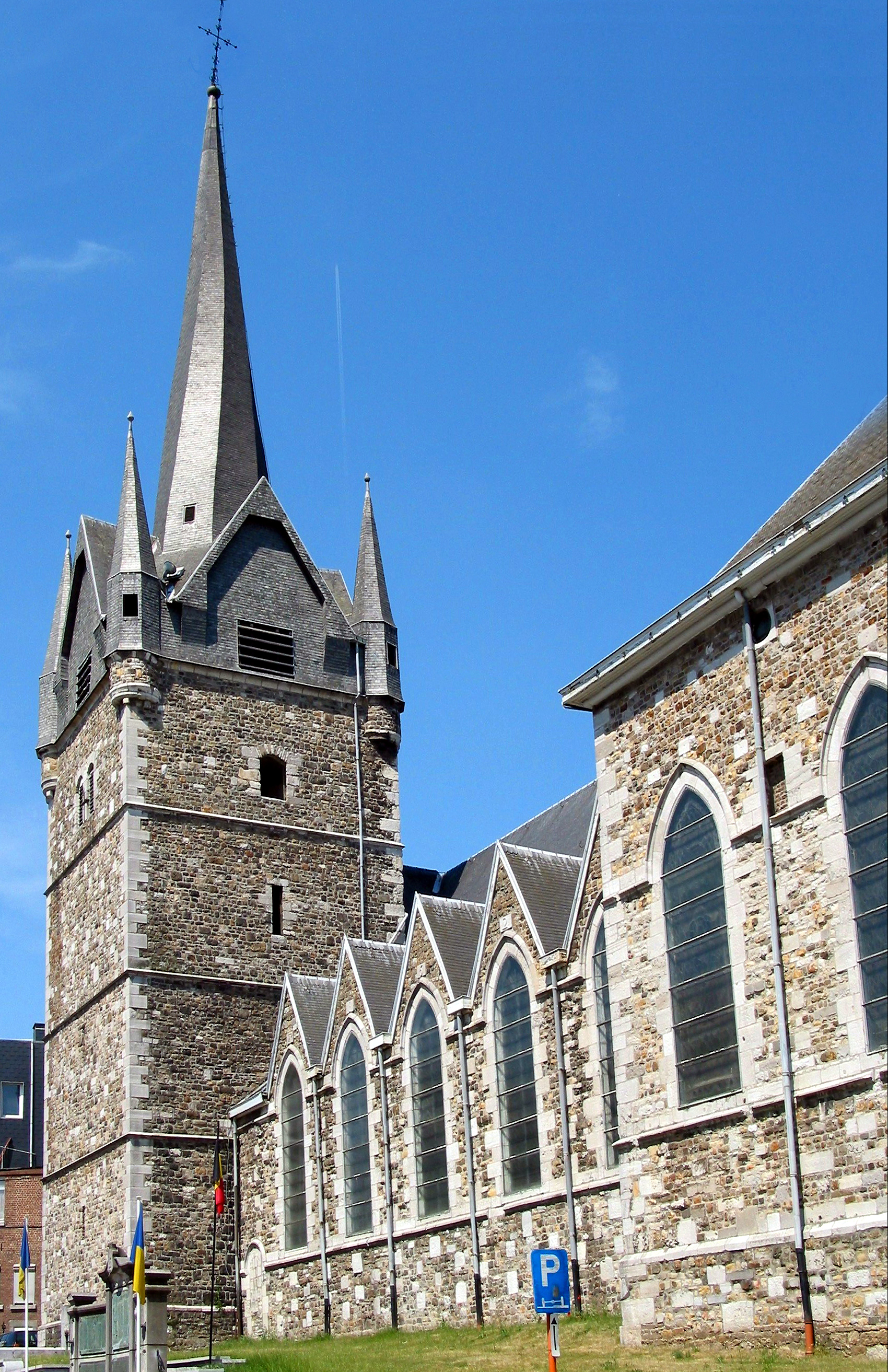 Herve (Belgium), the St-John the baptist church and his grim bell tower.